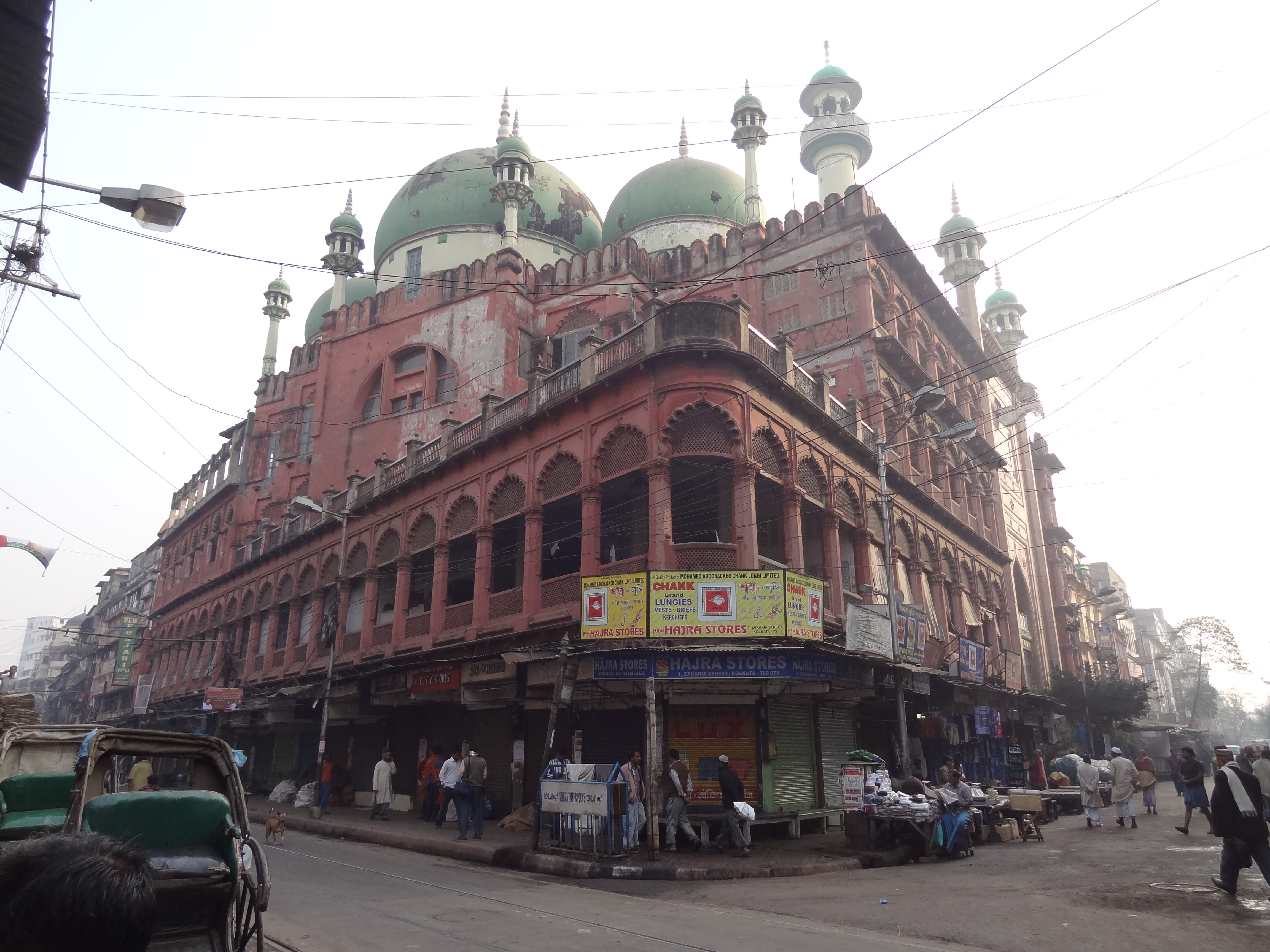 The Nakhoda Masjid is the principal mosque of Kolkata, India, in the Chitpur area of the Burrabazar business district in Central Kolkata, at the intersection of Zakariya Street and Rabindra Sarani.